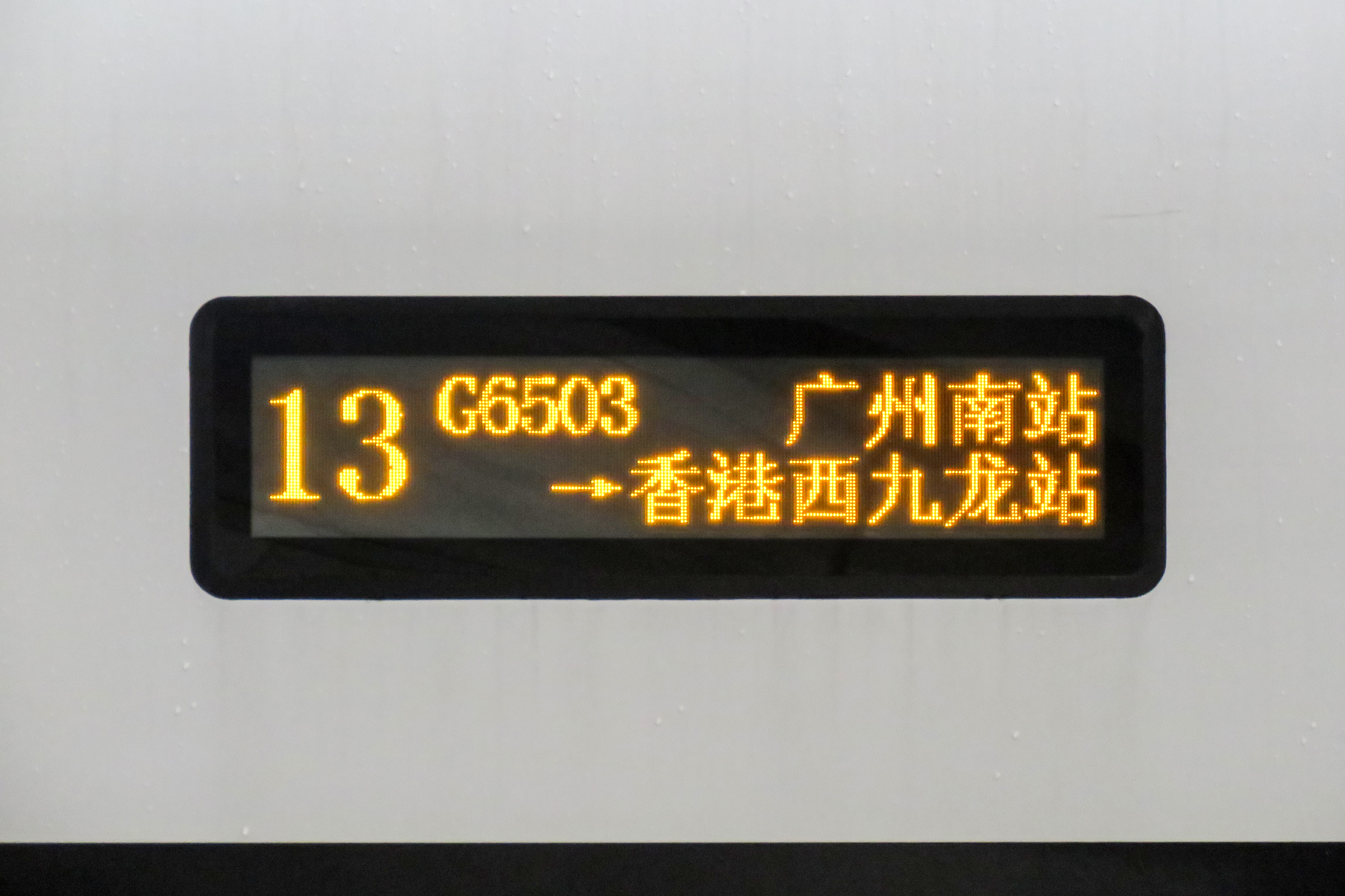 G6503 is a CR400BF-A based in Shanghai, today run by 5048. This is the preceding train of G100 from HK West Kowloon to Shanghai Hongqiao, and is the only 400BF at Guangzhounan.